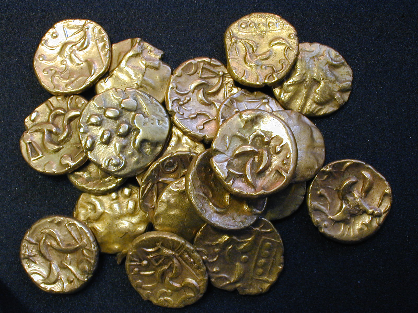 A hoard of Iron Age coins from Beverly, East Riding of Yorkshire, England. This was added from the site called under the name portableantiquities. See source for details.